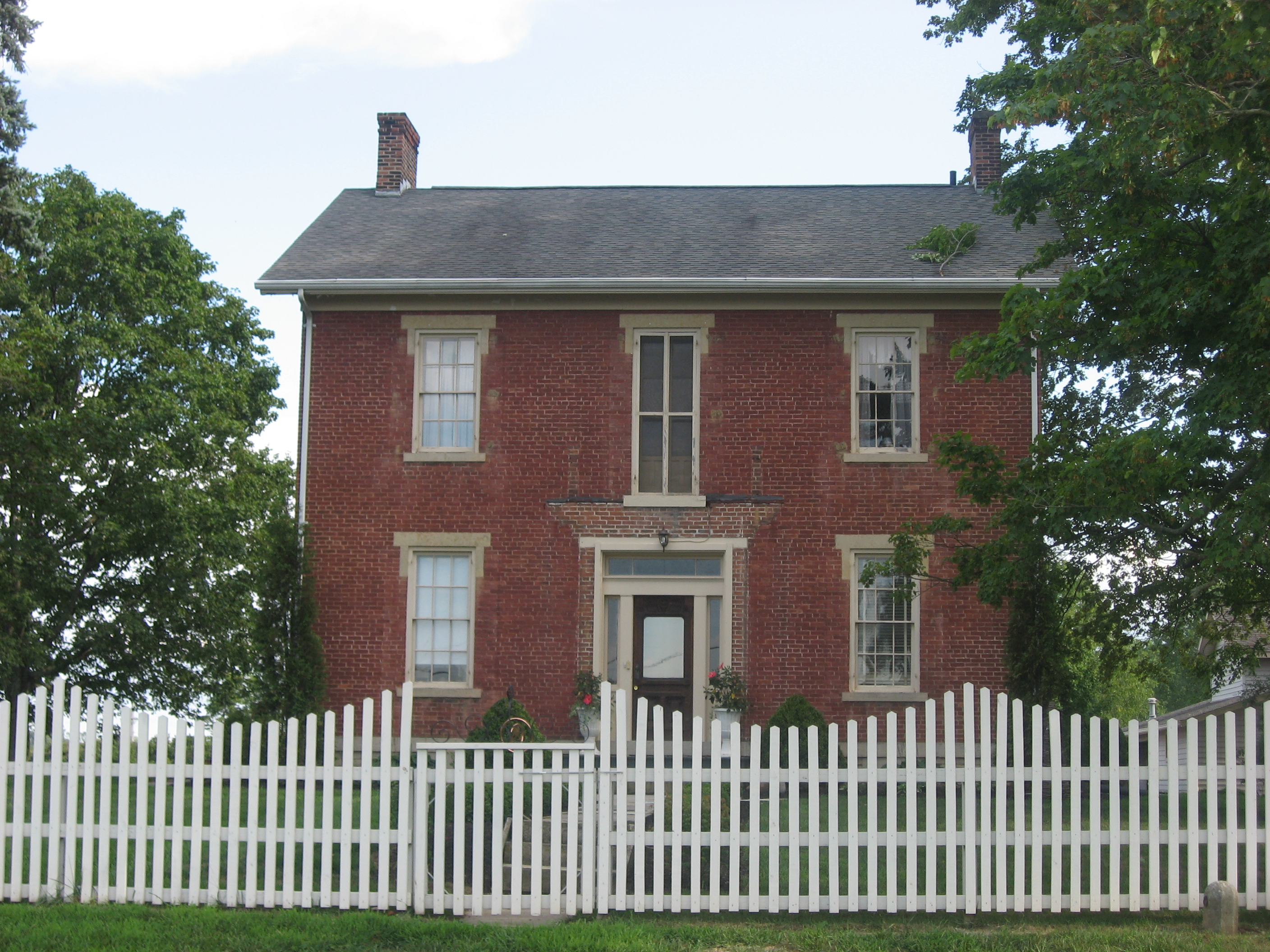 Front of the William Baumgardner House, located at 8390 U.S. Route 40 east of Brandt in Bethel Township, Miami County, Ohio, United States. Built in 1857, it and five outbuildings are listed together on the National Register of Historic Places.